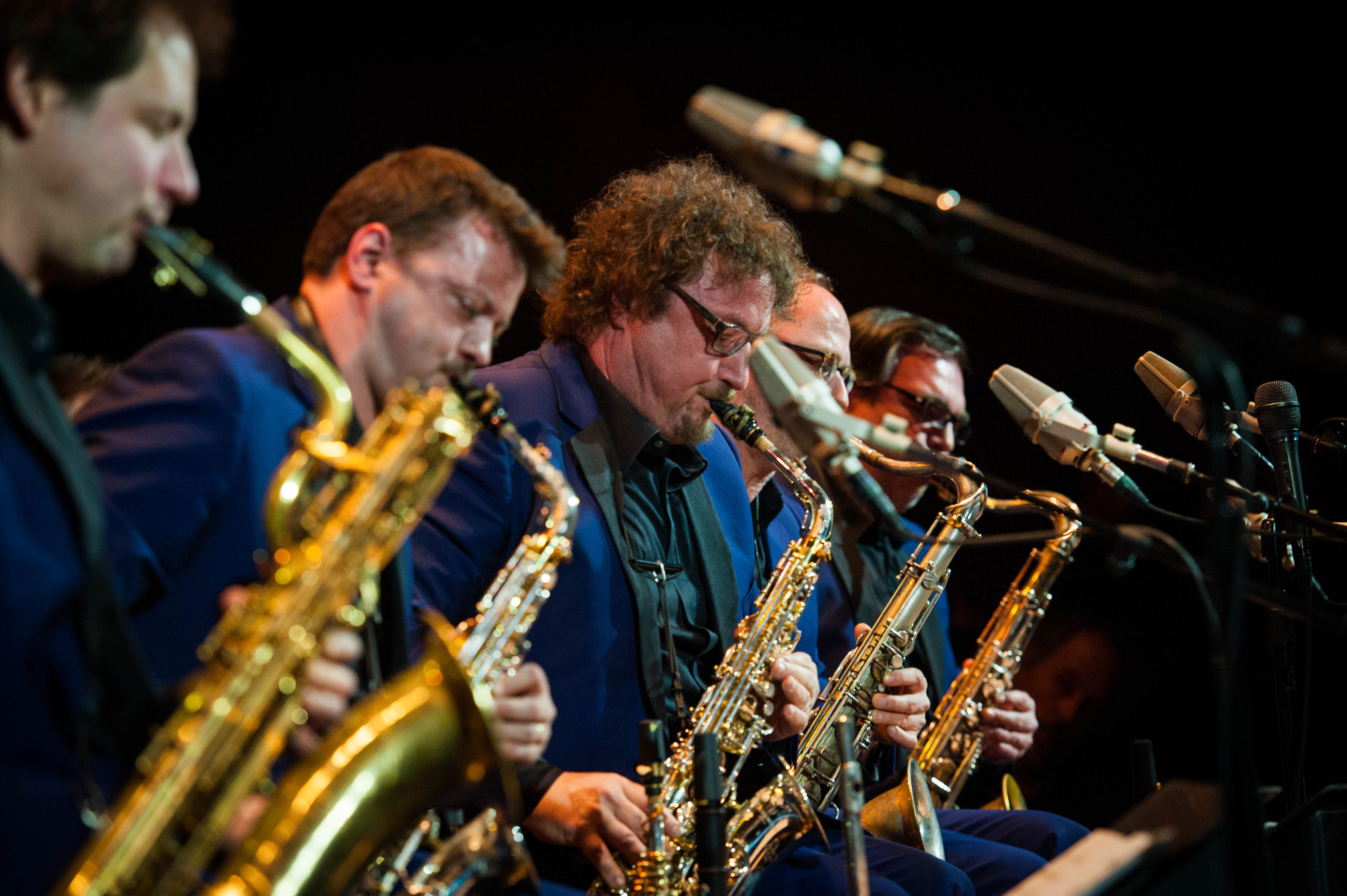 3/20/2015, New York---Brussels Jazz Orchestra play at Dizzy’s Club Coca-Cola in Jazz at Lincoln Center ( 20-21-22 March). Photo Rene Clement